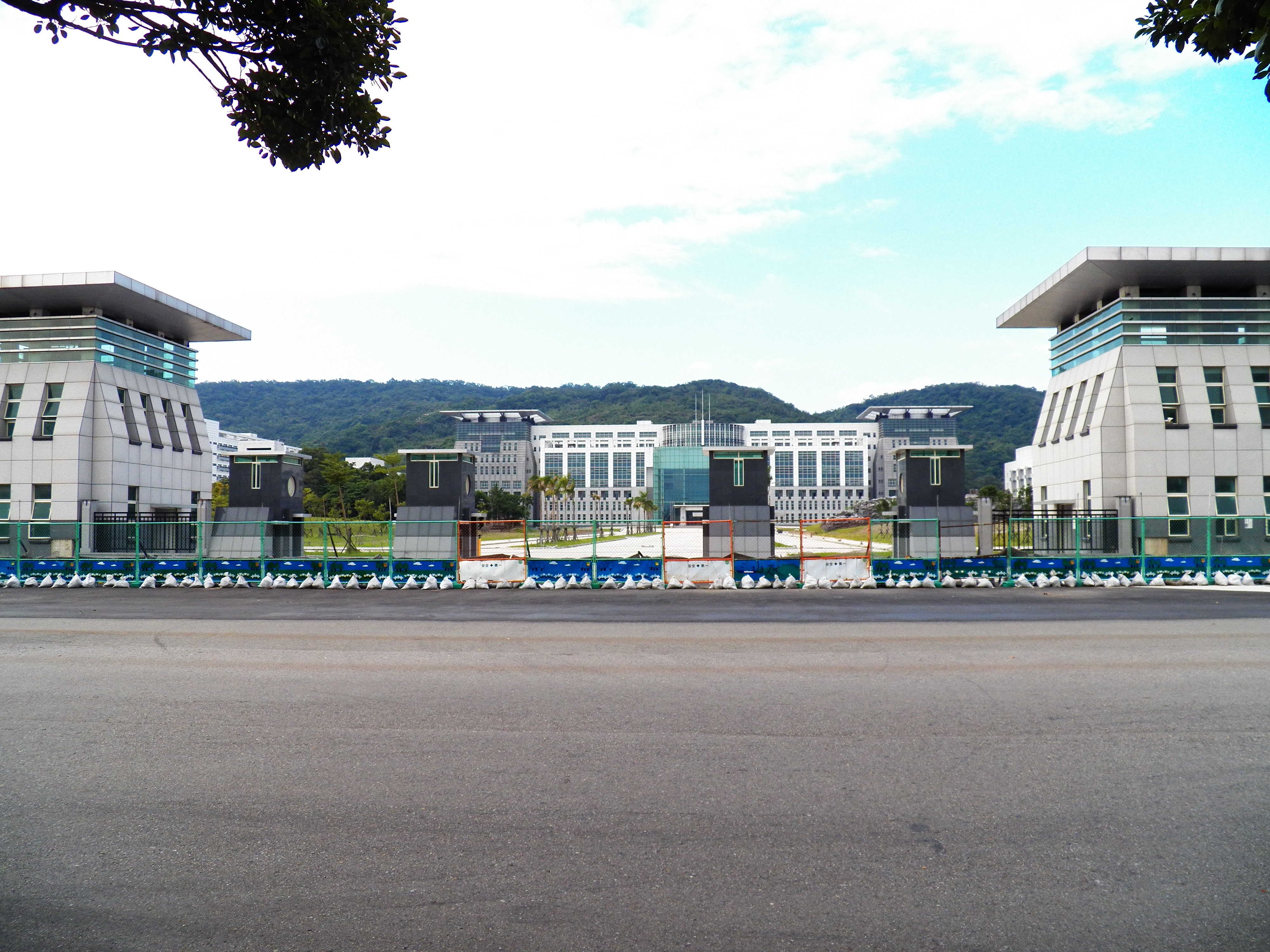 Ministry of National Defence